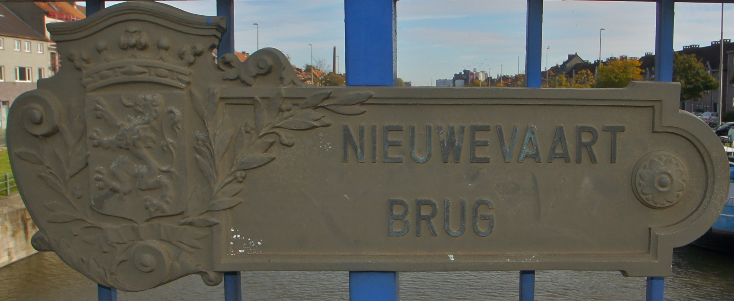 Gent, Belgium: Sign Nieuwe Vaart Verbindingskanaal